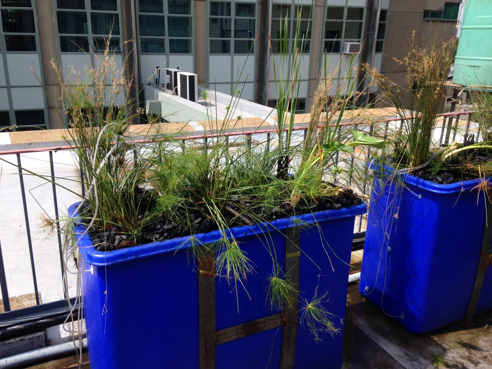 IMWARU CW rigs